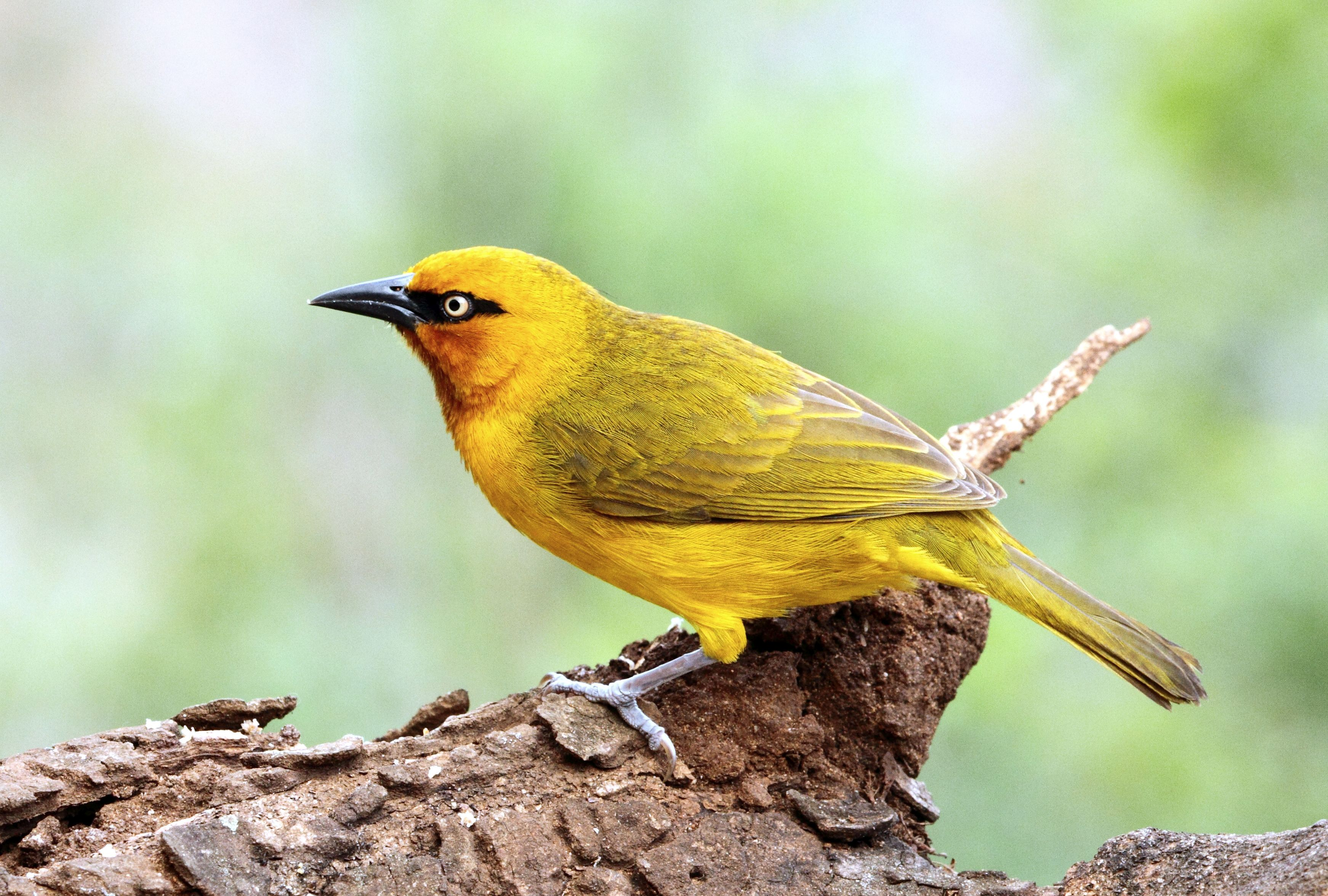 Female spectacled weaver Ploceus ocularis at Ngwenya Lodge, Mpumalanga.